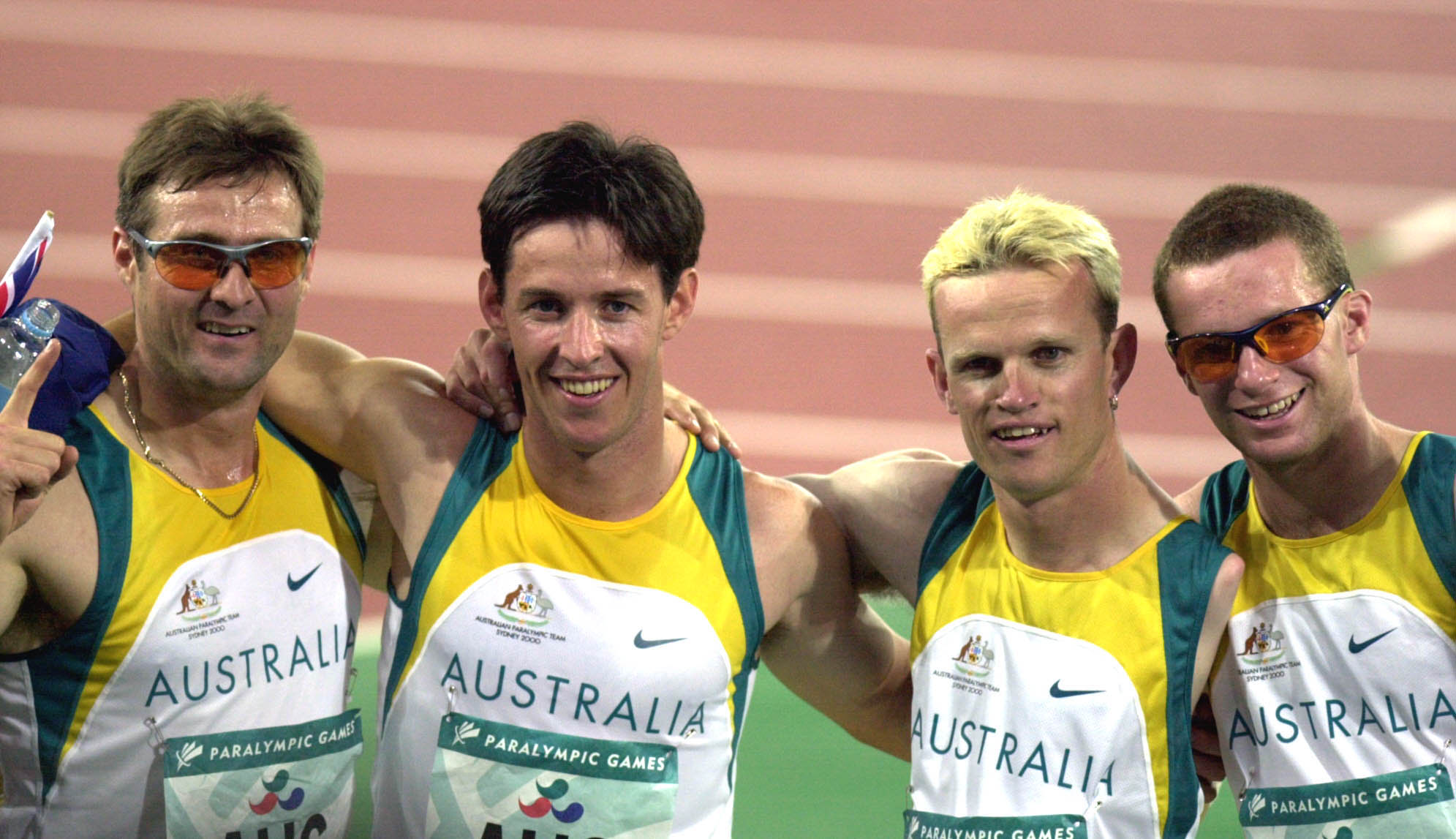 Portrait of Australian track athletes (L-R) Neil Fuller, Stephen Wilson, Tim Matthews and Heath Francis after their gold medal win in the 4 x 400 m T46 relay event at the 2000 Sydney Paralympic Games, Day 06